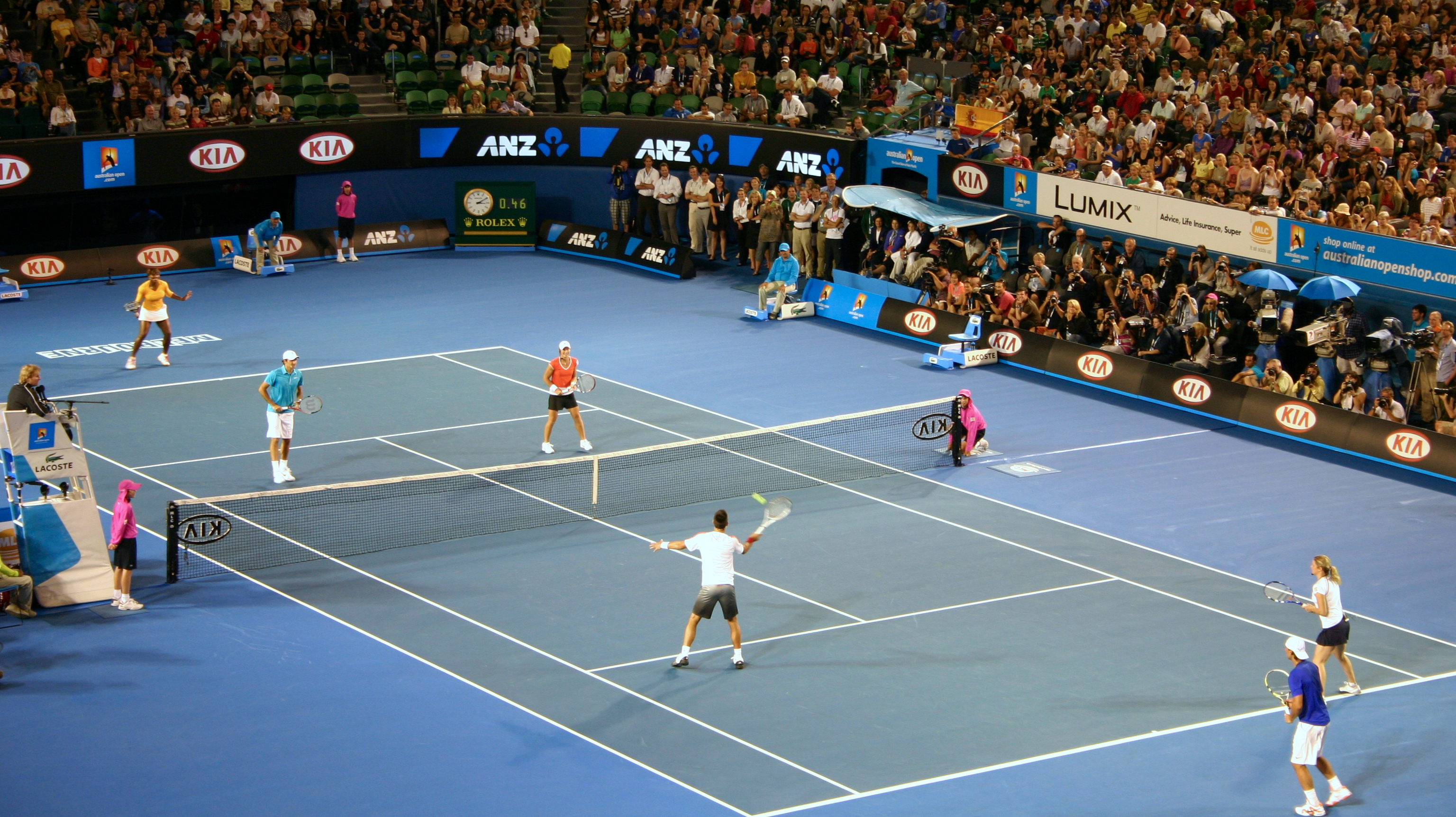 Red Team vs. Blue Team at Rod Laver Arena, during a quickly organized "Hit for Haiti" charity event held just prior to the 2010 Australian Open. Thought up by Roger Federer, the players were organized into two four-person teams (named for the colors in the Haitian flag), allowed substitutions, and wore microphones during play. Proceeds from the event were to go towards helping with the relief effort of the 2010 Haiti earthquake. The Red Team (far court) was made up of Federer, Serena Williams, Lleyton Hewitt, and Samantha Stosur. The Blue Team (near court) was Rafael Nadal, Novak Djokovic, Andy Roddick, and Kim Clijsters. All except Hewitt and Roddick are playing in this photo.